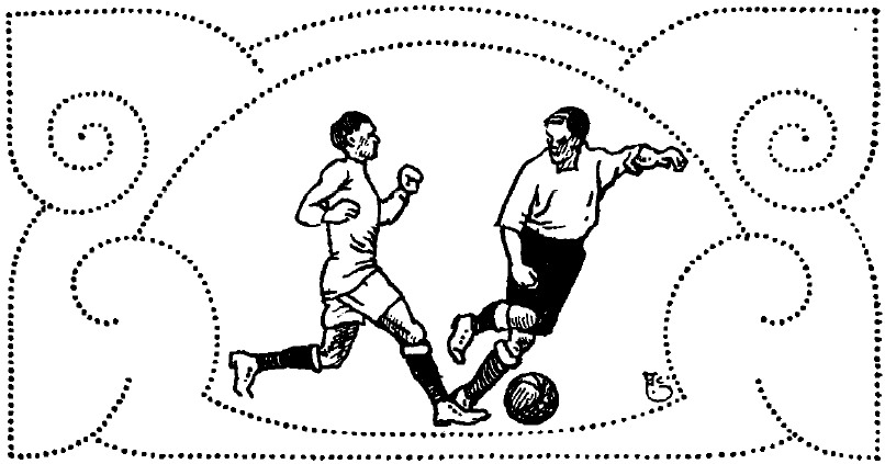 1912 Summer Olympics football logo